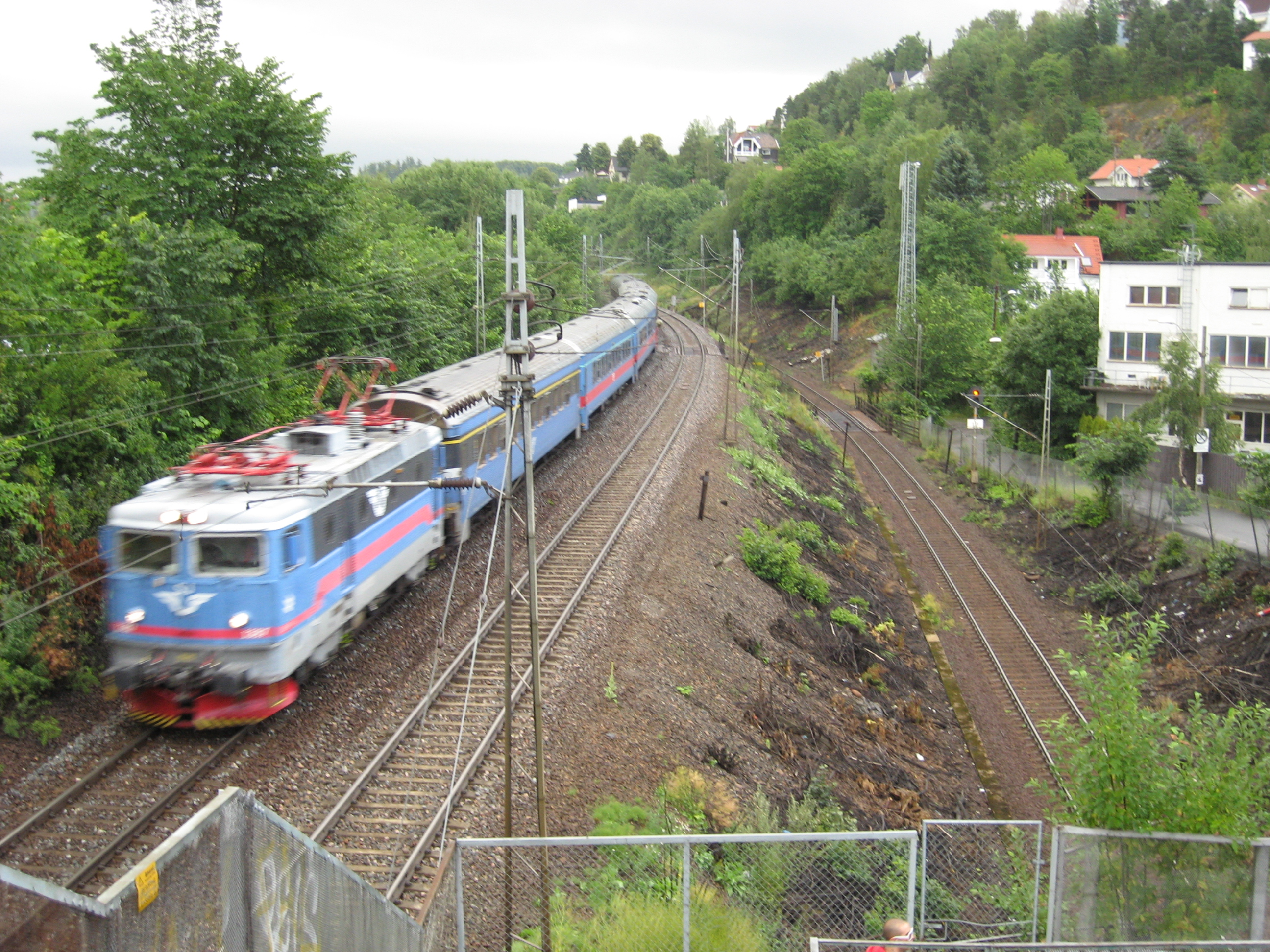 The SJ train 58/637 with an Rc locomotive from Stockholm passes by Etterstad on its way on Hovedbanen to Oslo Central Station, about eight minutes late. The Loenga–Alnabru freight line is seen to the right.